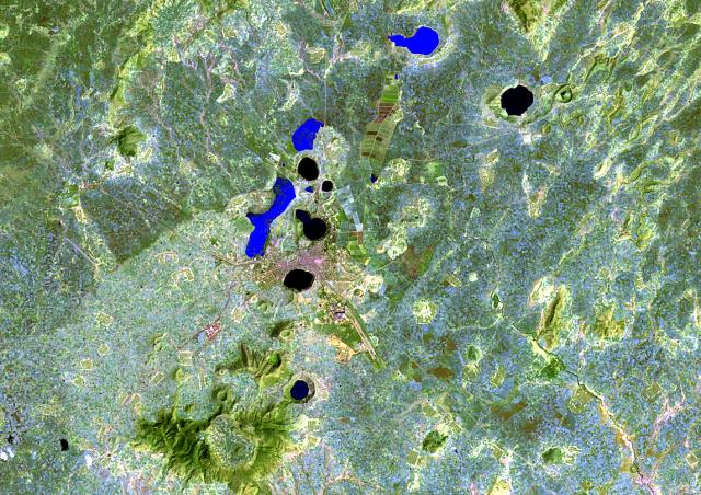 Bishoftu volcanic field — of Ethiopia. A chain of lake-filled maars (dark-colored in this Landsat image), tuff rings, and cinder cones, lies along the Ethiopian Rift Valley SE of Addis Ababa and forms the Bishoftu volcanic field. The city of Debre Zeit (left-center) lies between two maars, irregular-shaped Lake Hora and circular Lake Bishoftu. The Haro Maja tuff ring and its neighbor to the west, lake-filled Kilole maar (upper right), are offset to the east.